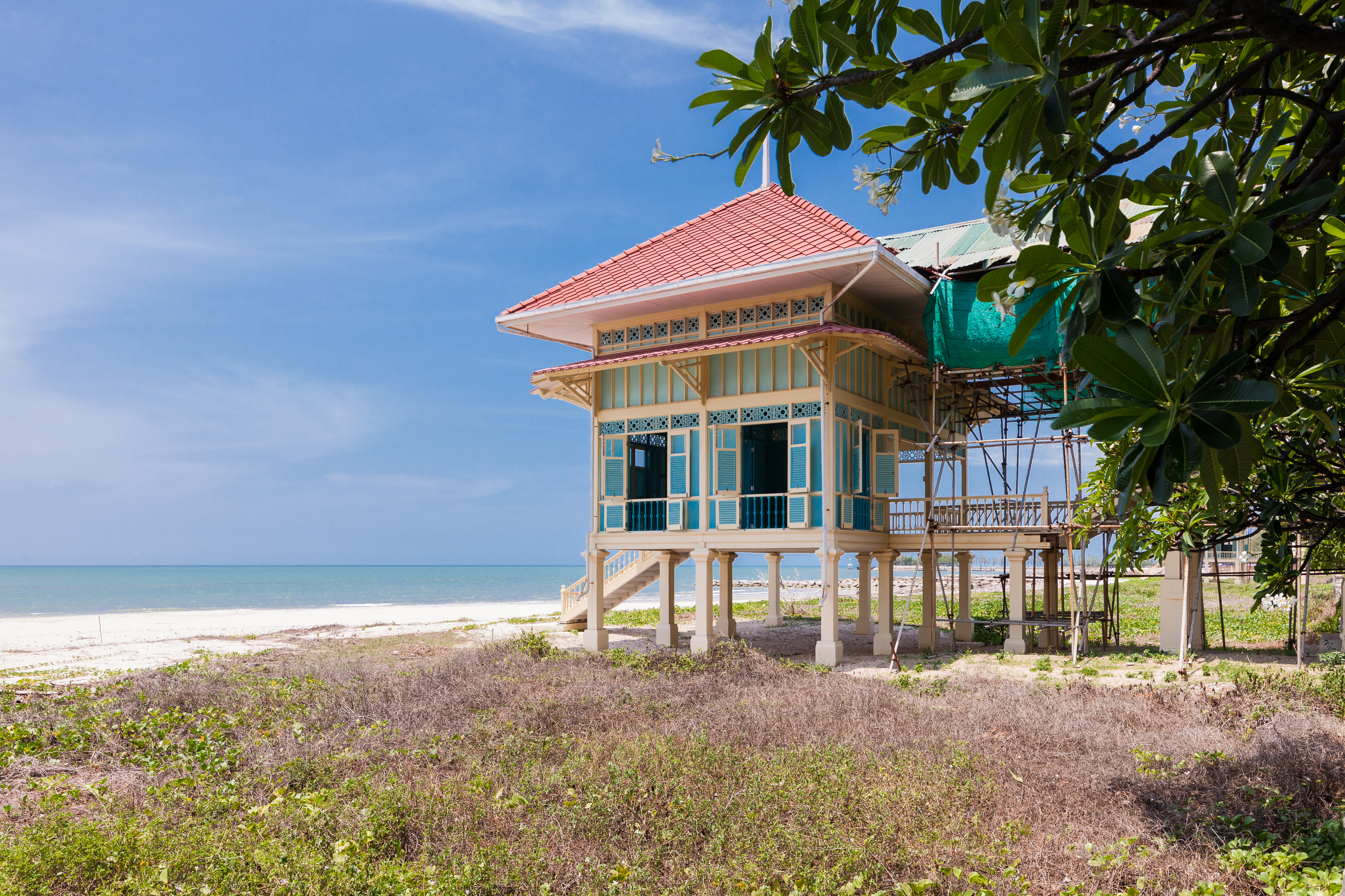 Mrigadayavan Palace (RTGS: phra ratchaniwet maruekkhathayawan, IPA: [pʰráʔ râːttɕaníwêːt márɯkkʰatʰaːjawān]; also phra ratchawang maruek thayawan) was the summer palace of King Vajiravudh (Rama VI) in Cha Am District, Phetchaburi Province, Thailand.